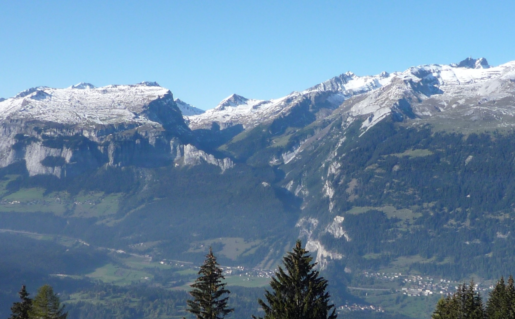 Bargis Valley to the right (east) of Flimserstein. A remote valley in a non-remote region. At its end lies Trin Mulin, belonging to Trin to the right. At the foot of Flimserstein lies Fidaz, belonging to Flims. Its front part had been removed by the Flims Rockslide.